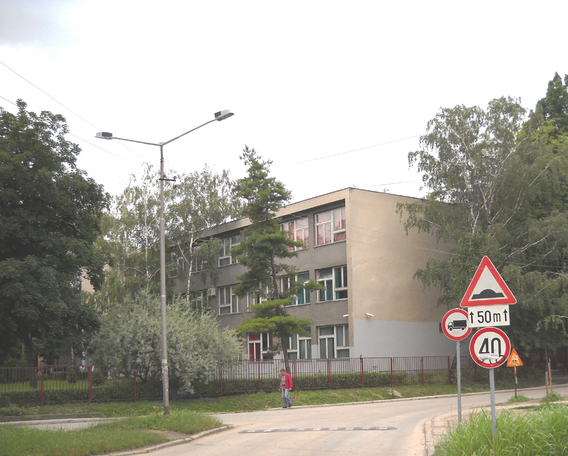 Elementary school in Satelit neighborhood in Novi Sad.